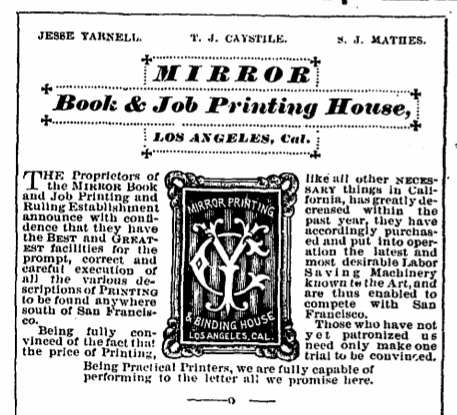 Advertisement printed in the Los Angeles Times on January 1, 1881, for the Mirror Book & Job Printing House, forerunner to Times-Mirror Company of Los Angeles. This image is out of copyright.